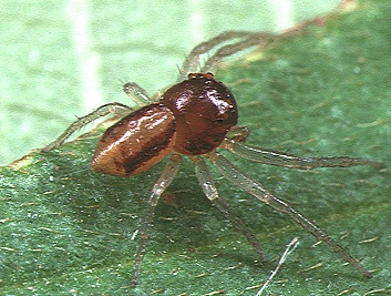 male Alcimochthes limbatus from Okinawa.